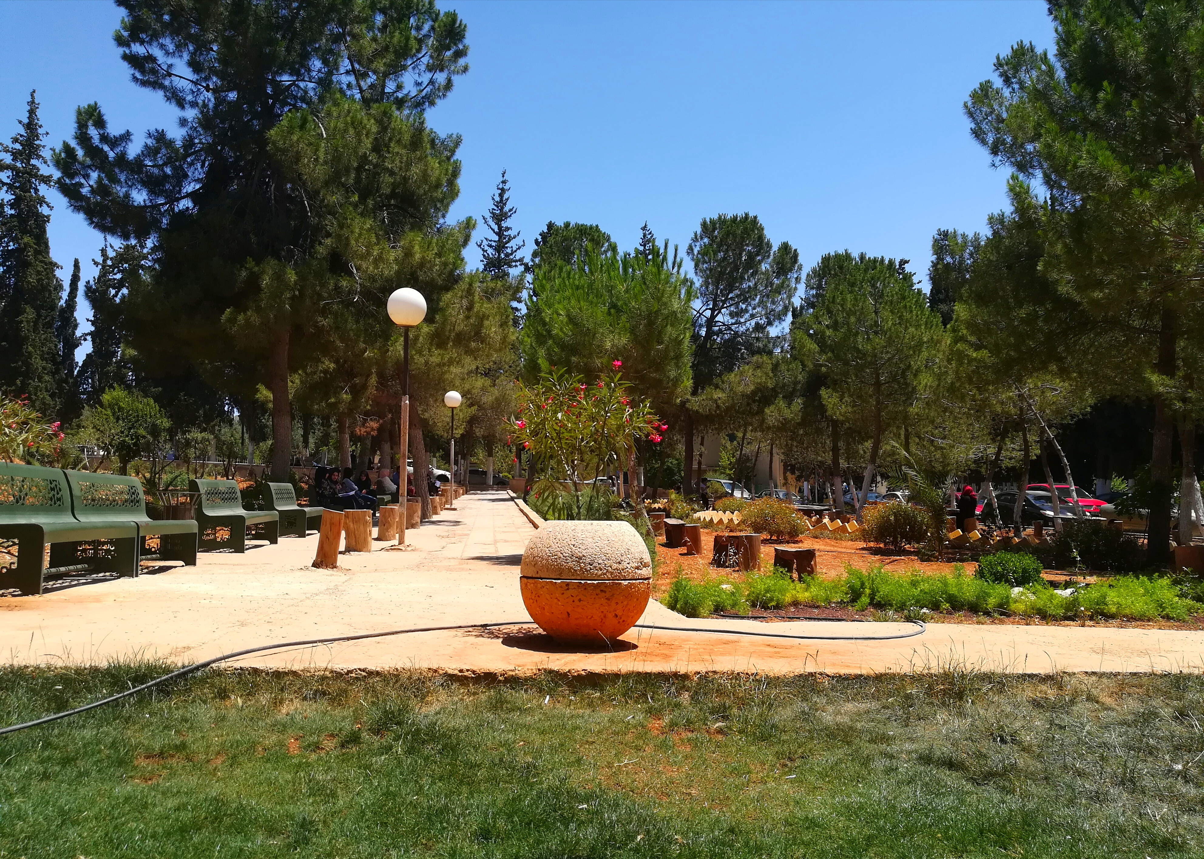 Garden of Factuly of Foreign Languages in University of Jordan